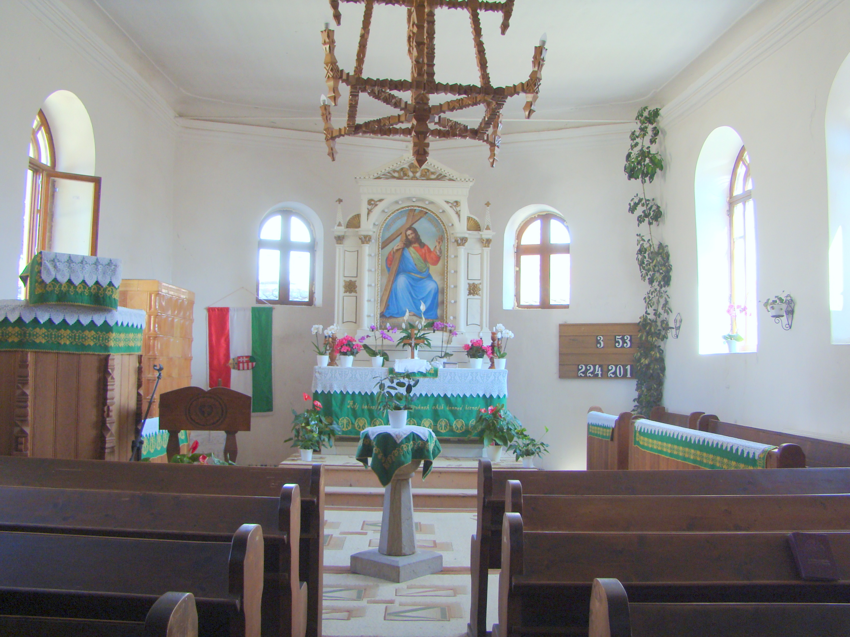 Lutheran church in Apața, Brașov County, Romania